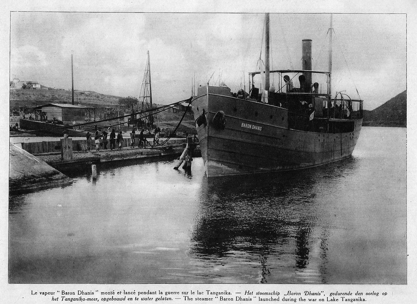 Baron Dhanis boat transported and mounted localy on the Tanganyika lake for the African First World war offensive.